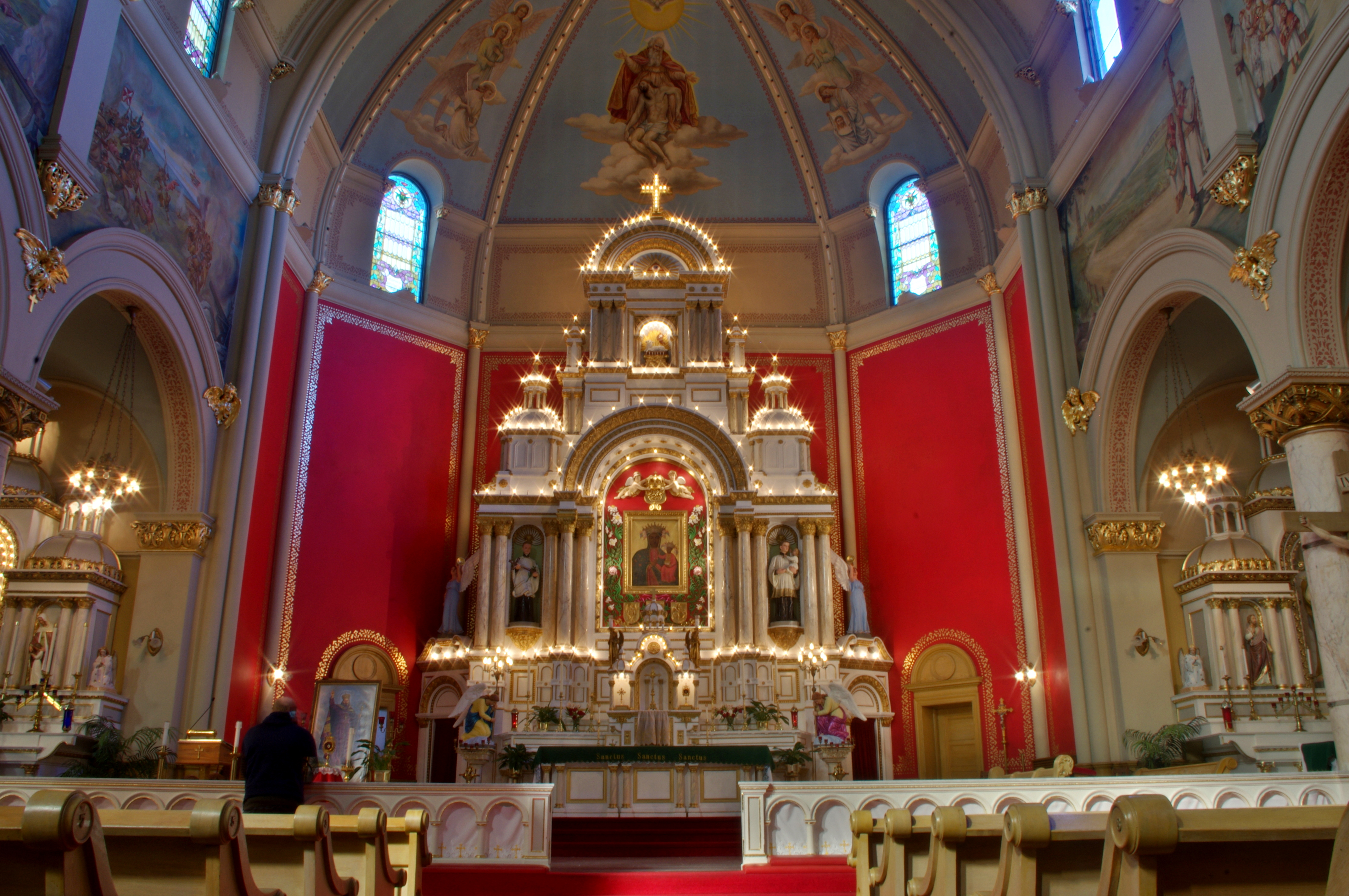 Saint Josaphat Catholic Church (Detroit, MI) - high altar, with the Black Madonna, Sts. Aloysius & Anthony